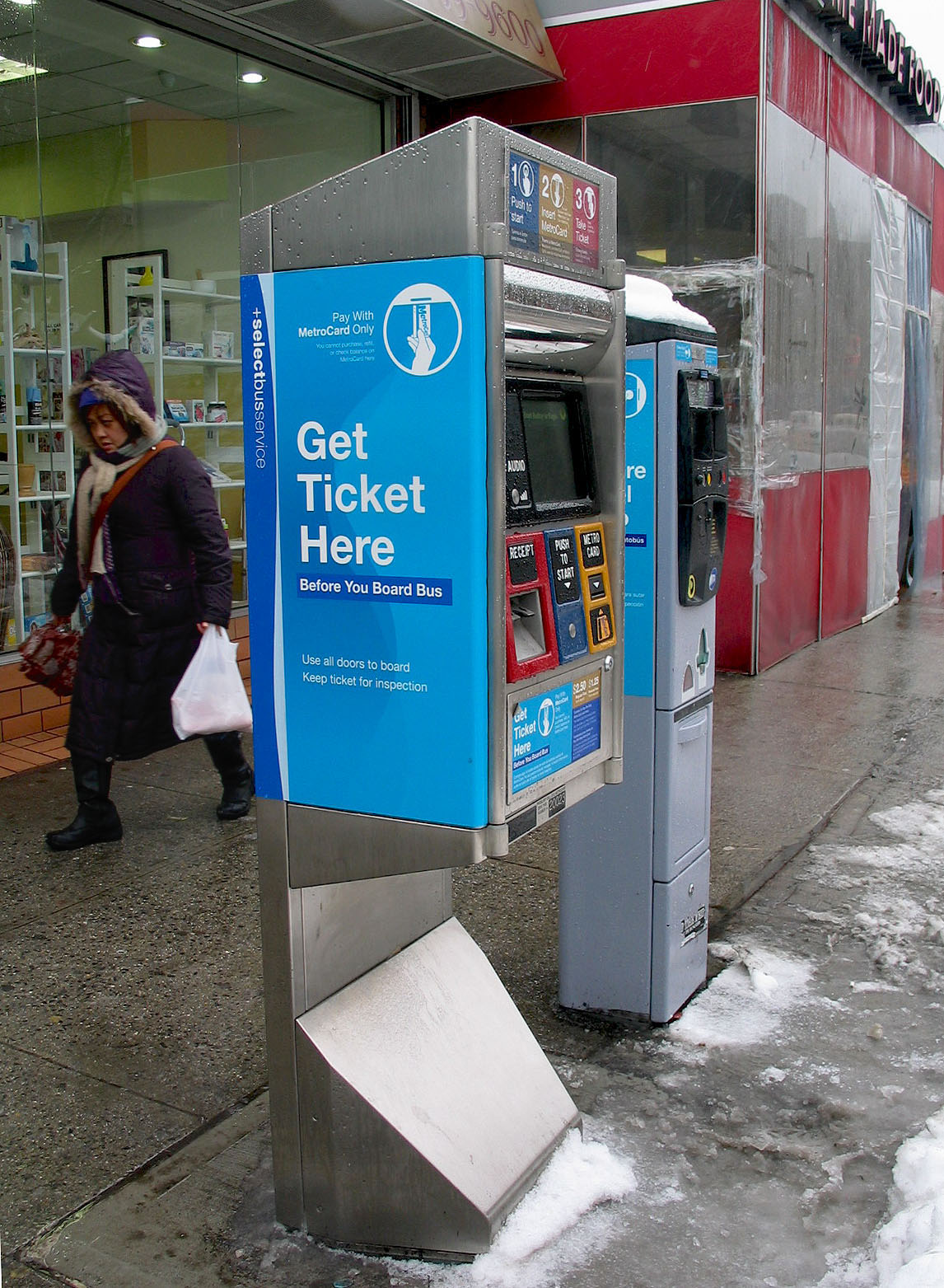 TIcketing Macines for Select Bus Service on a corner of Nostrand Avenue and Avenue X